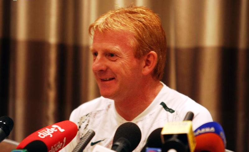 Gordon Strachan (born 9 February 1957 in Edinburgh) is a Scottish footballer, coach.